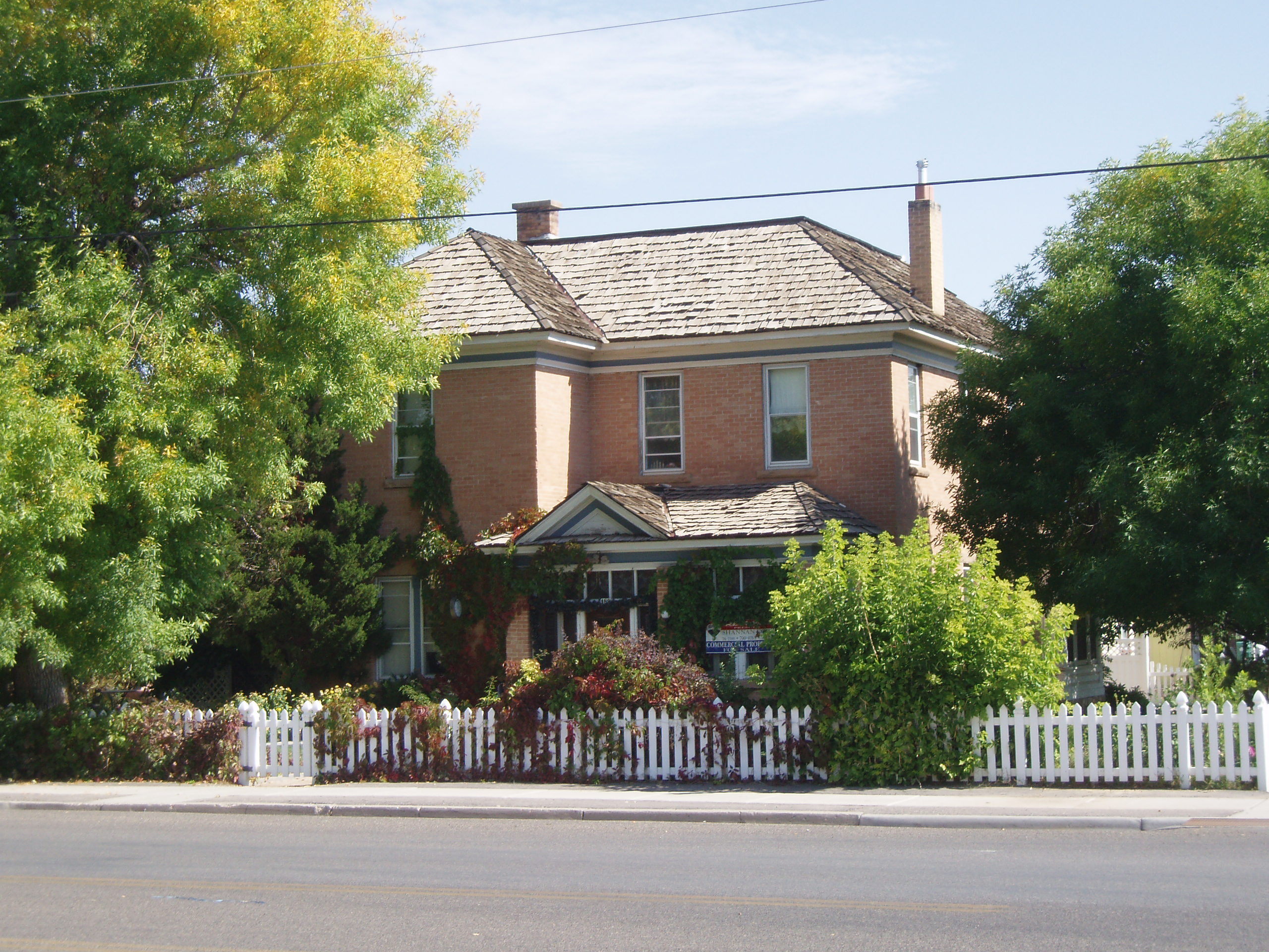 The Lewis Curry House, a historic home in Vernal, Utah, United States.